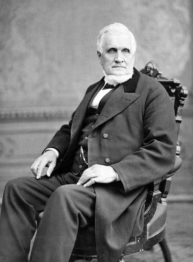 John Taylor (Mormon) (November 1, 1808 – July 25, 1887) late in life, seated in a chair. Taylor was the third president of The Church of Jesus Christ of Latter-day Saints, from 1880 to 1887.